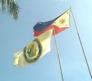 Flag of the city of Bayugan and the Philippines. Taken at the city hall grounds of Bayugan.